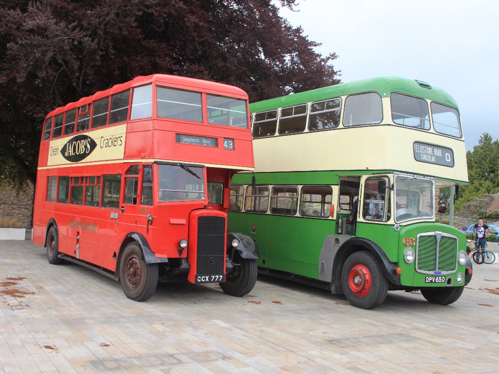 Two of Quantock Motor Services' heritage fleet on Castle green, taunton, during an enthusiasts' event. On the left is CCX 777, a 1945-built Daimler CW with Duple utility body for the Huddersfield Joint Omnibus Company which is carrying a London Transport livery. On the right is DPV 65D, an AEC Regent with East Lancashire body built in 1966 for Ipswich Corporation, their number 65.